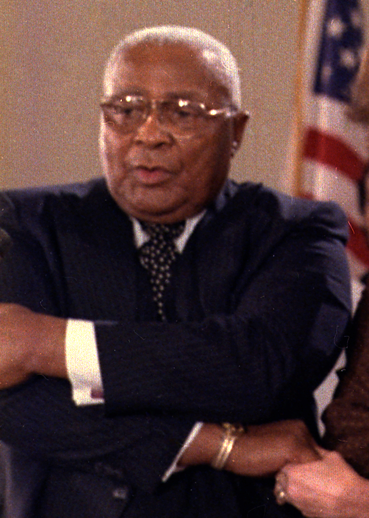 Martin Luther King Sr., cropped from a photo in the Carter White House Photographs Collection. Ebenezer Baptist Church in Atlanta